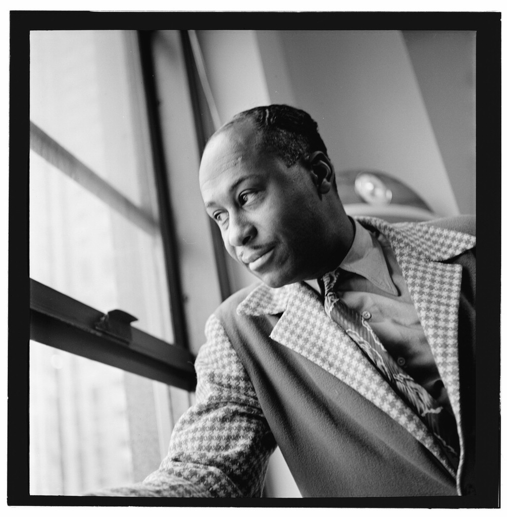 Snub Mosley, William P. Gottlieb's office, New York, N.Y., between 1946 and 1948 (Photograph by William P. Gottlieb)